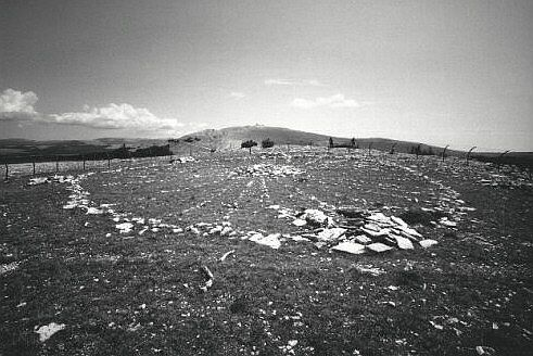 The Bighorn Medicine Wheel is a medicine wheel located in the Big Horn Mountains of the U.S. state of Wyoming.